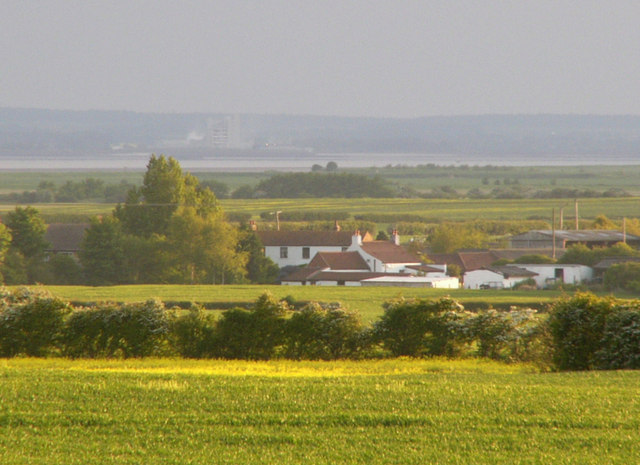 Weeton Village Centre, East Riding of Yorkshire, England.Taken from Gilcross Hill 1 Mile away.